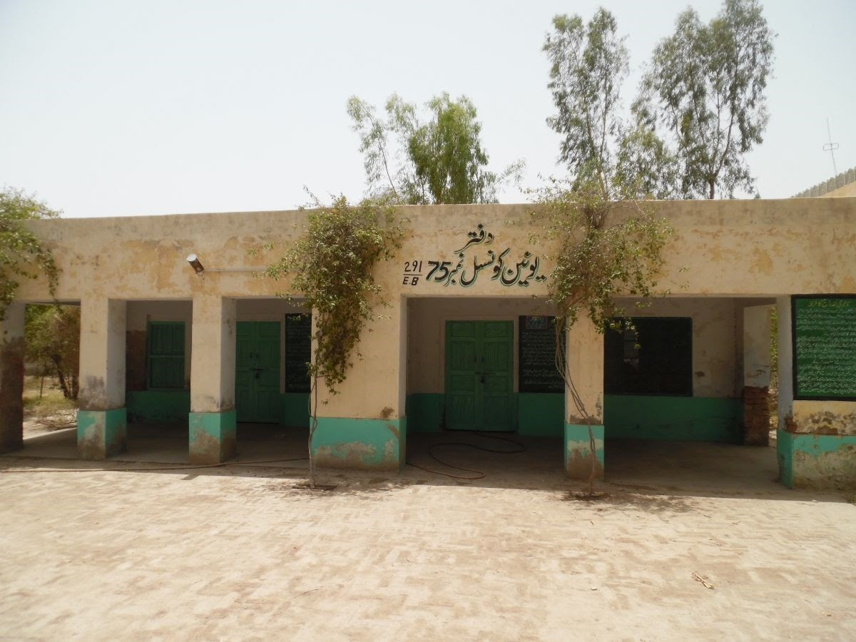 This is union council office located in chak no. 291/e.b